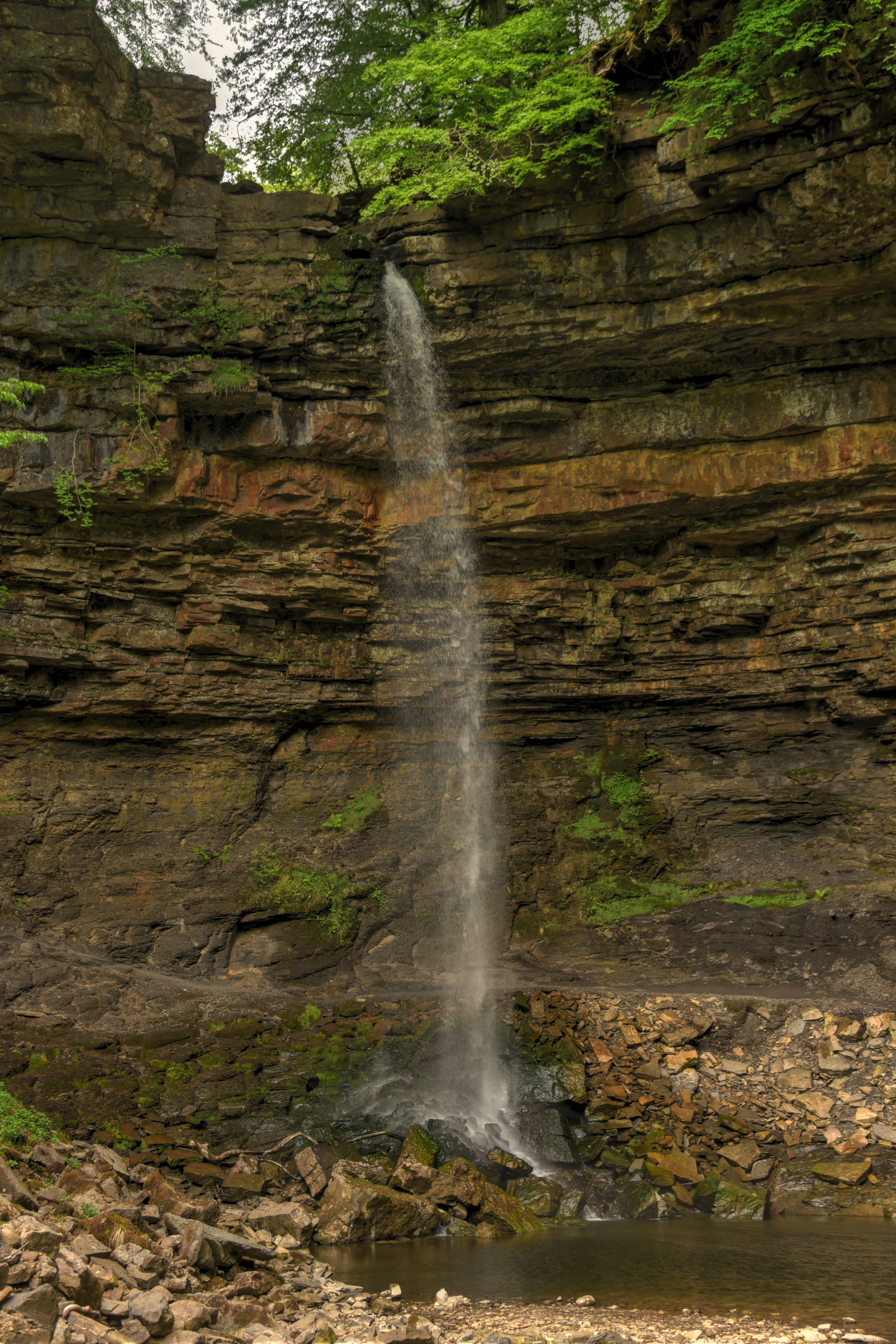 Hardraw Force, a 100-foot waterfall in the Yorkshire Dales.